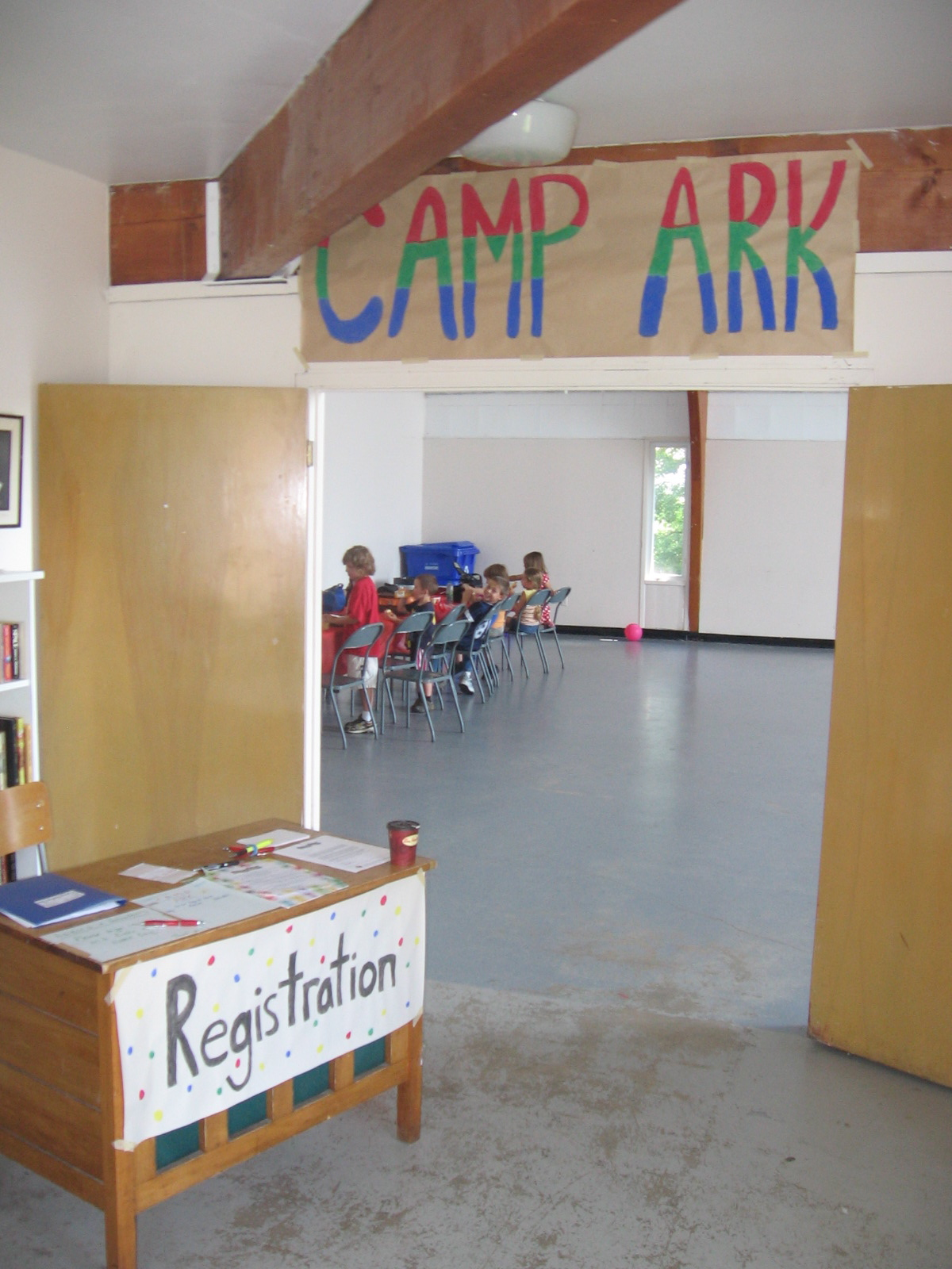 The entrance to Camp ARK